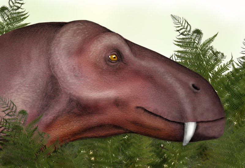 Russian dinocephalian Titanophoneus